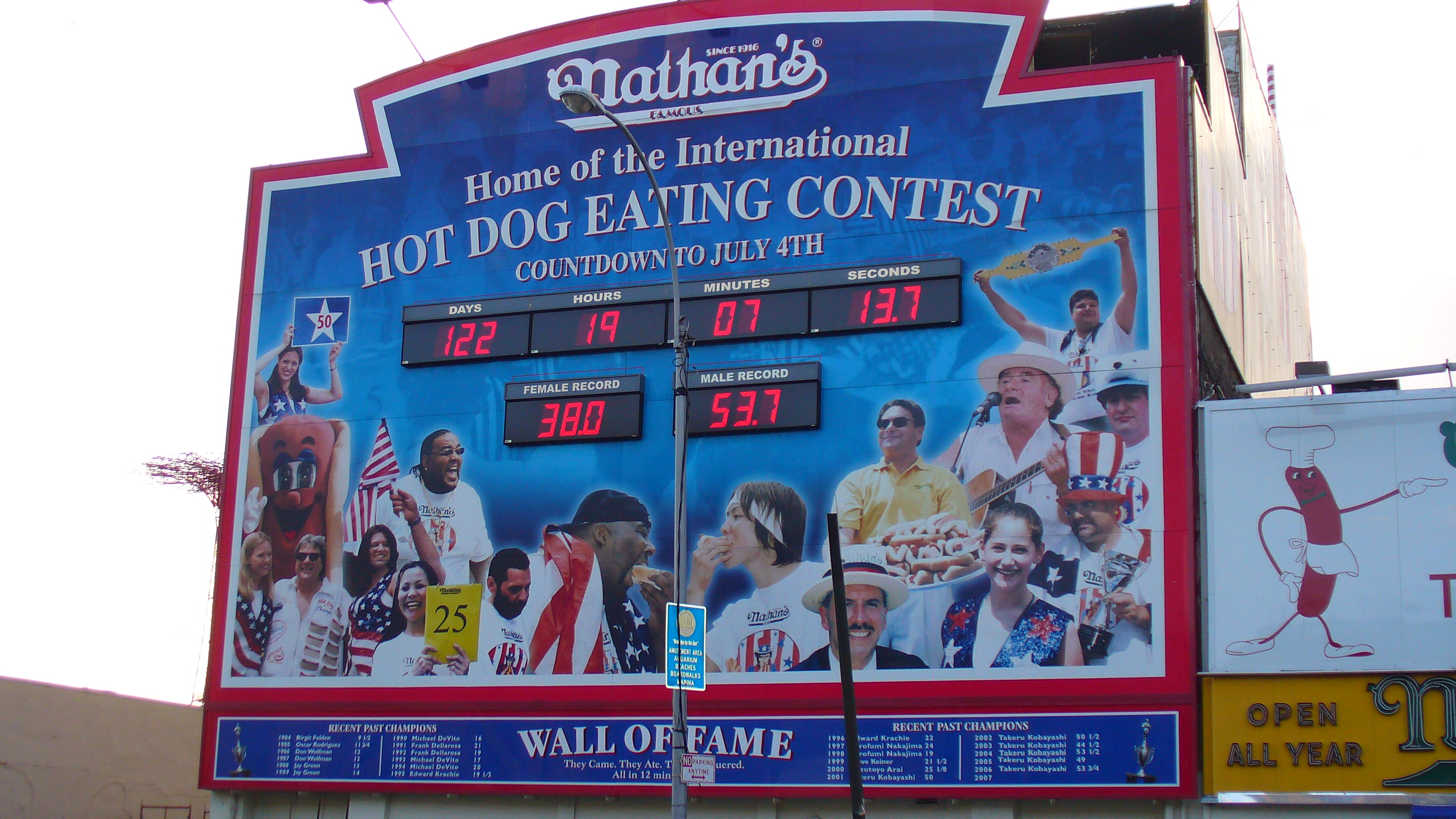 Nathan's Hot dog eating competition Wall of Fame by David Shankbone